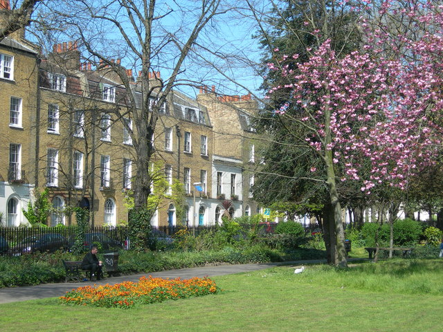 Clapton Square, Hackney, London. Showing the park and some houses on the road around it.